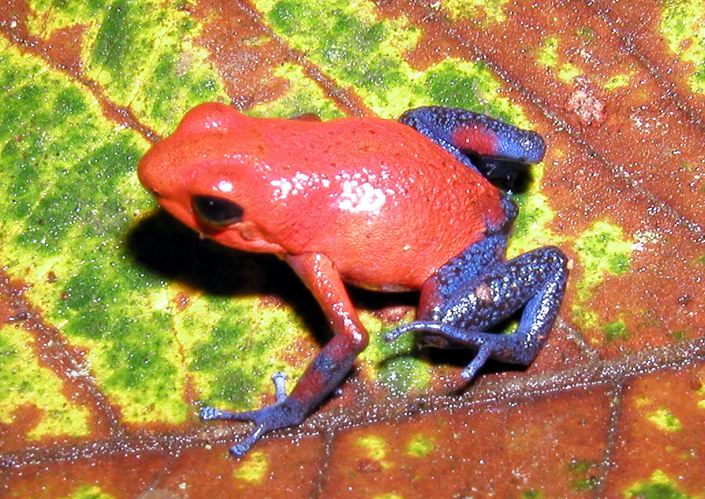 Oophaga pumilio (formerly known as Dendrobates pumilio), a poison dart frog, from Costa Rica, Central America.